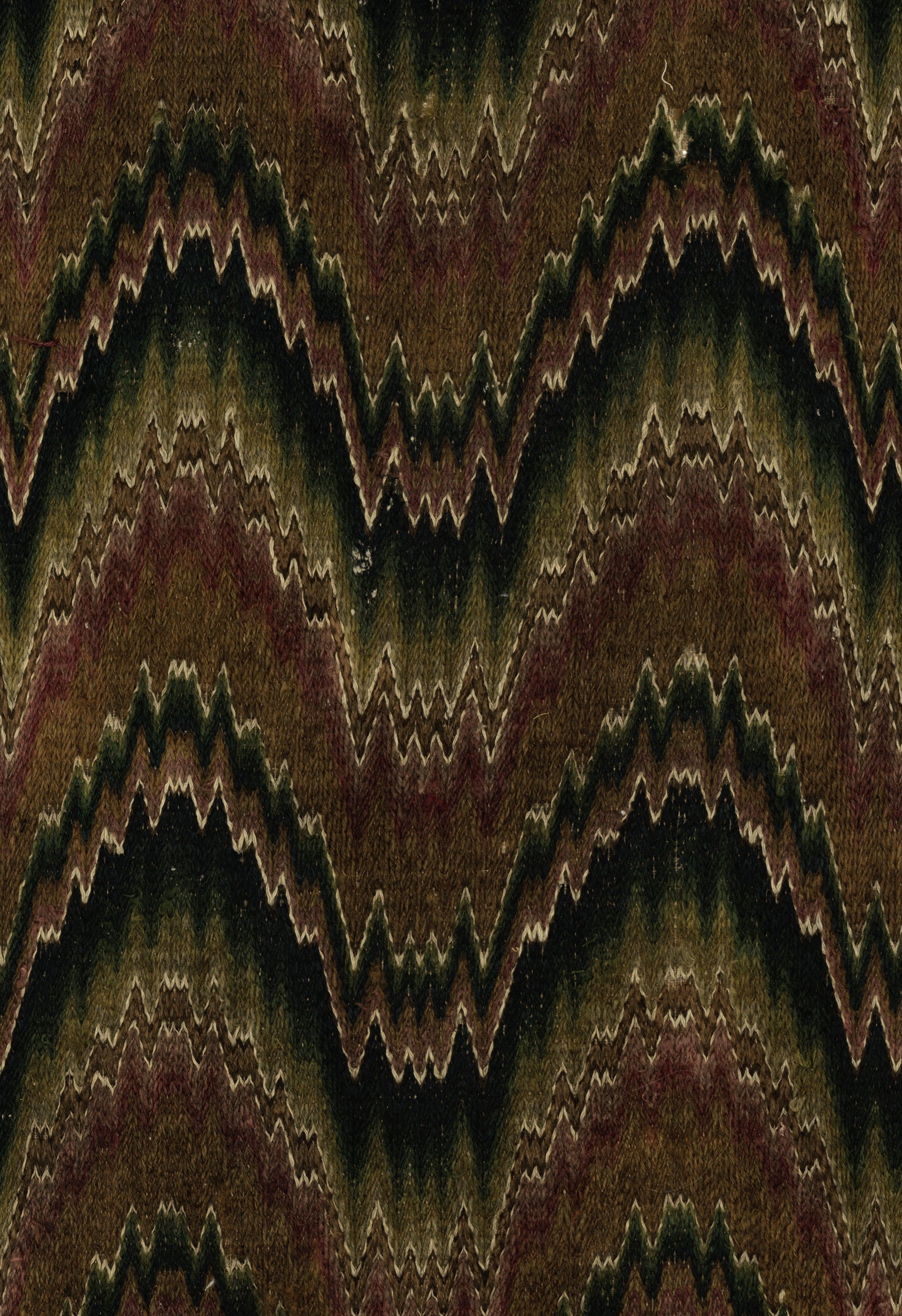 Wallhanging of Bargello embroidery worked with flame stitch or Hungarian stitch in wool on a linen canvas ground (detail).